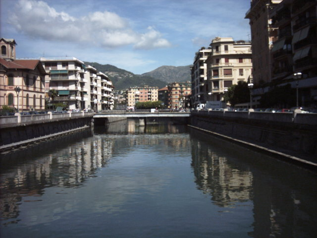 Torrente Boate, foce